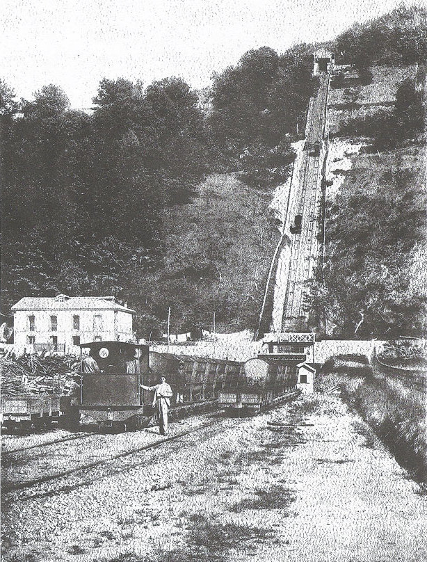 Incline railway in the coal mine "Mariana" (Mieres, Asturias, Spain)